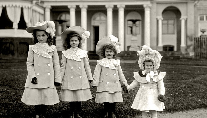 The Grand Duchesses Olga, Tatiana, Maria and Anastasia Nikolaevna in Darmstadt, Hesse.